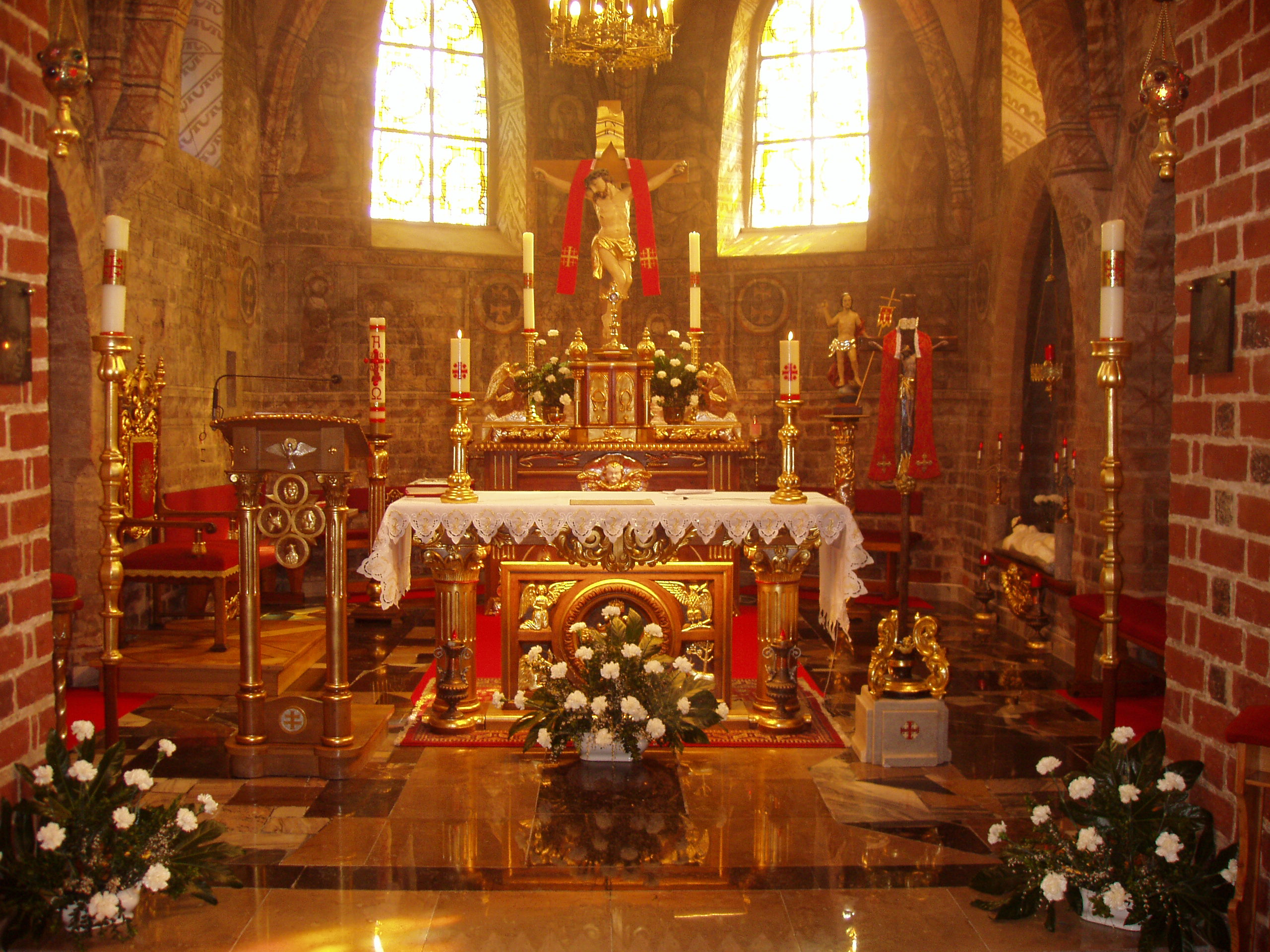 Gniezno (Poland). Church of saint John the Baptist. Chancel